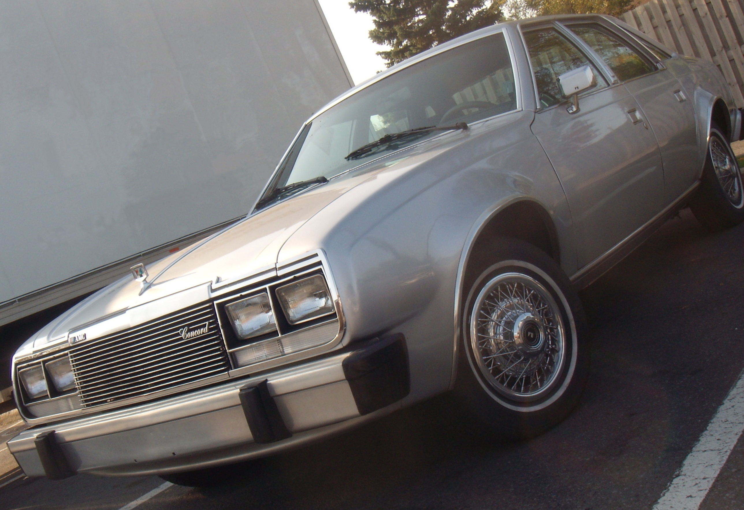 1983 AMC Concord photographed in Dollard-Des-Ormeaux, Quebec, Canada.